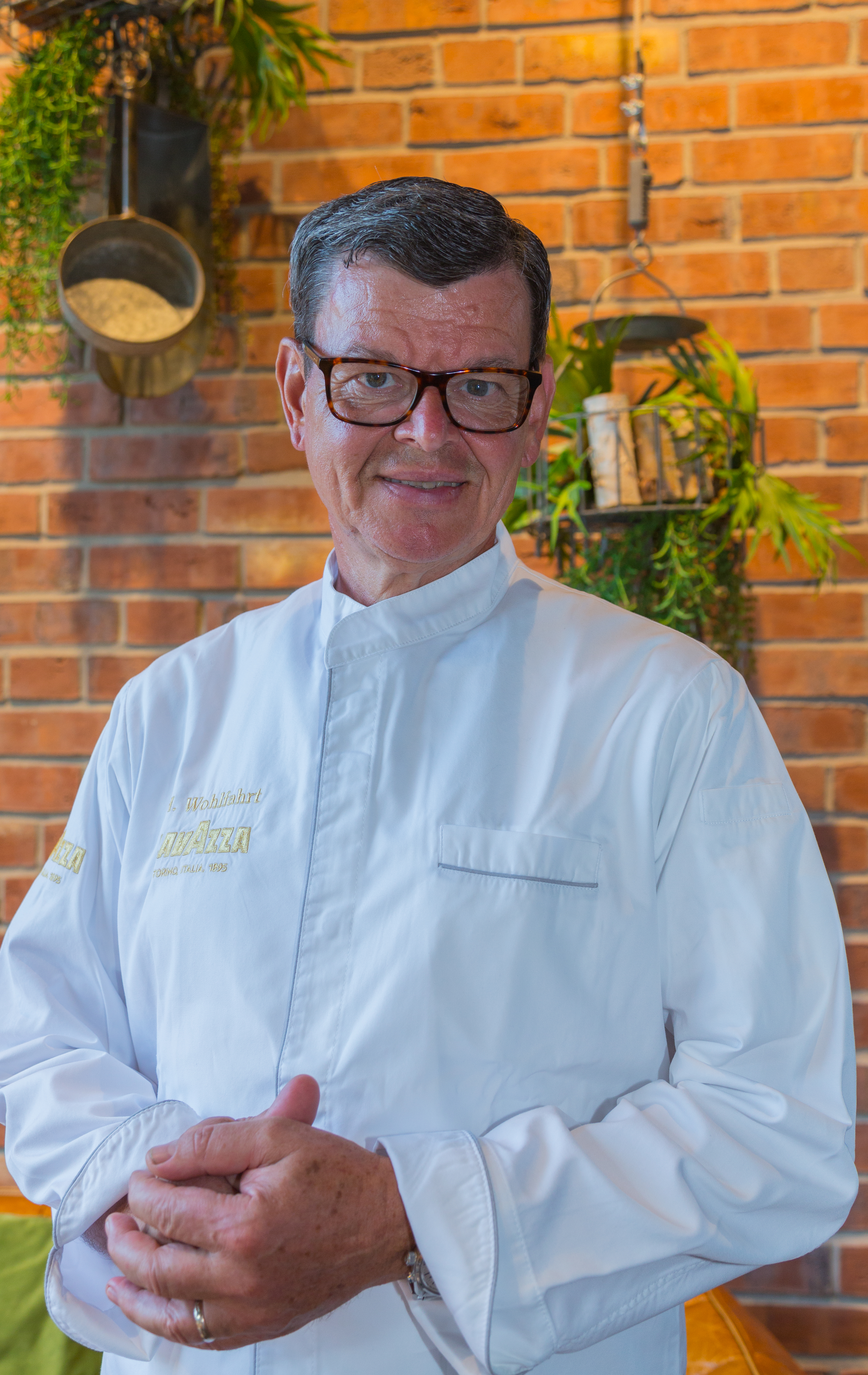 German chef Harald Wohlfahrt at The Workshop (Die Werkstatt) in Mettingen, Kreis Steinfurt, North Rhine-Westphalia, Germany.